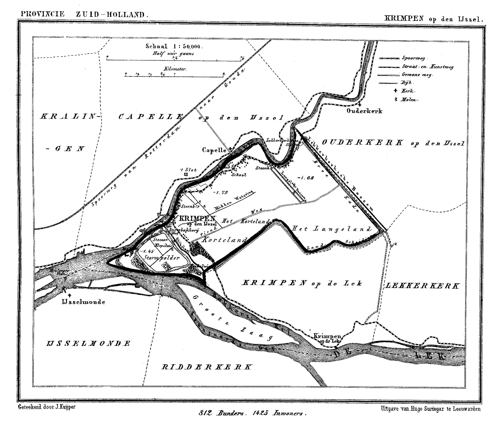 Historic map of Krimpen aan den IJssel, the Netherlands